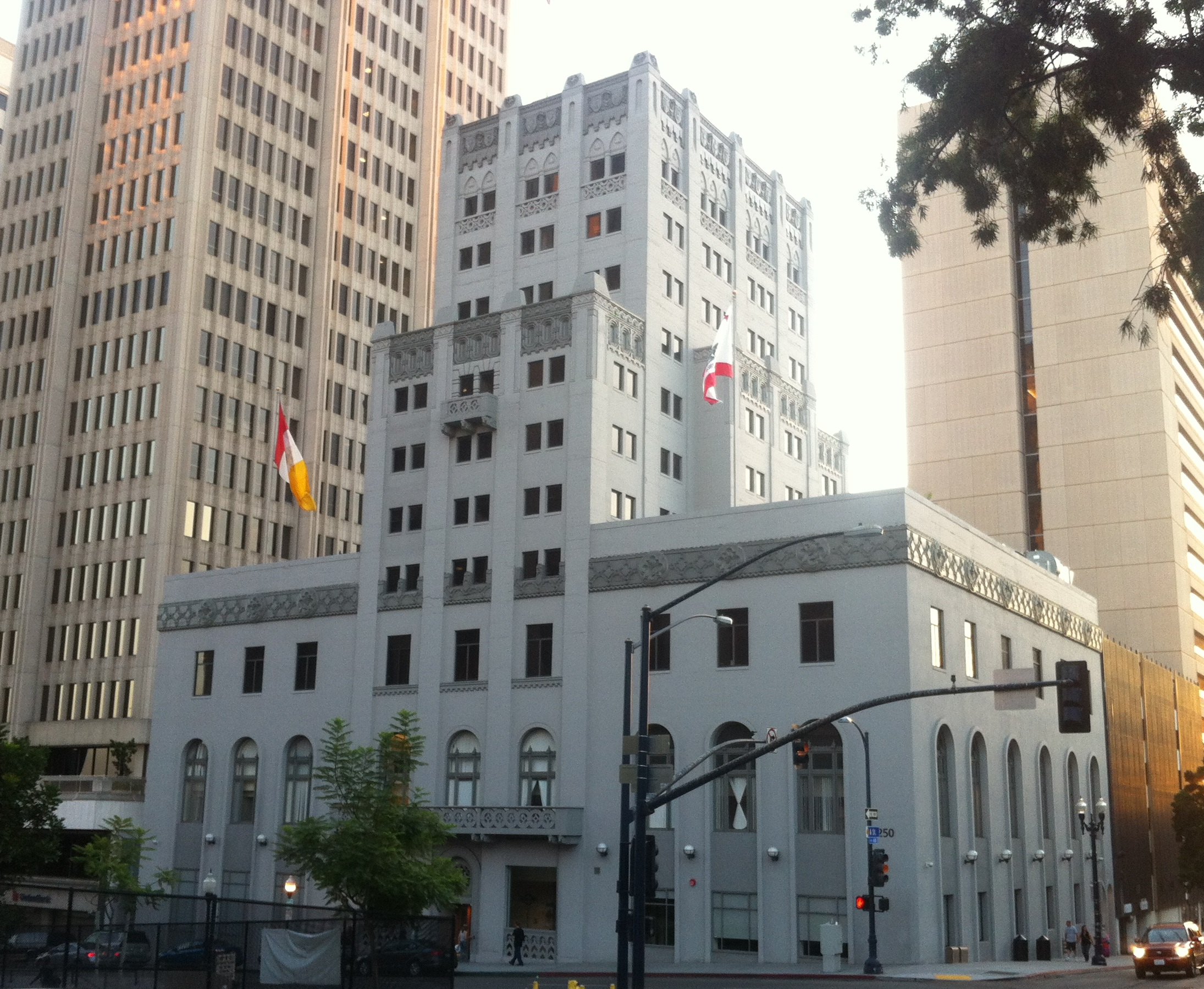 San Diego Athletic Club, 1250 6th Ave. San Diego